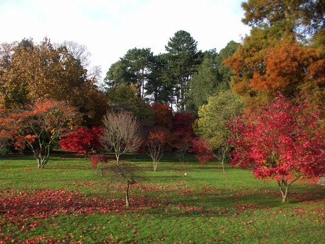 Roath Park, Cardiff, Wales.